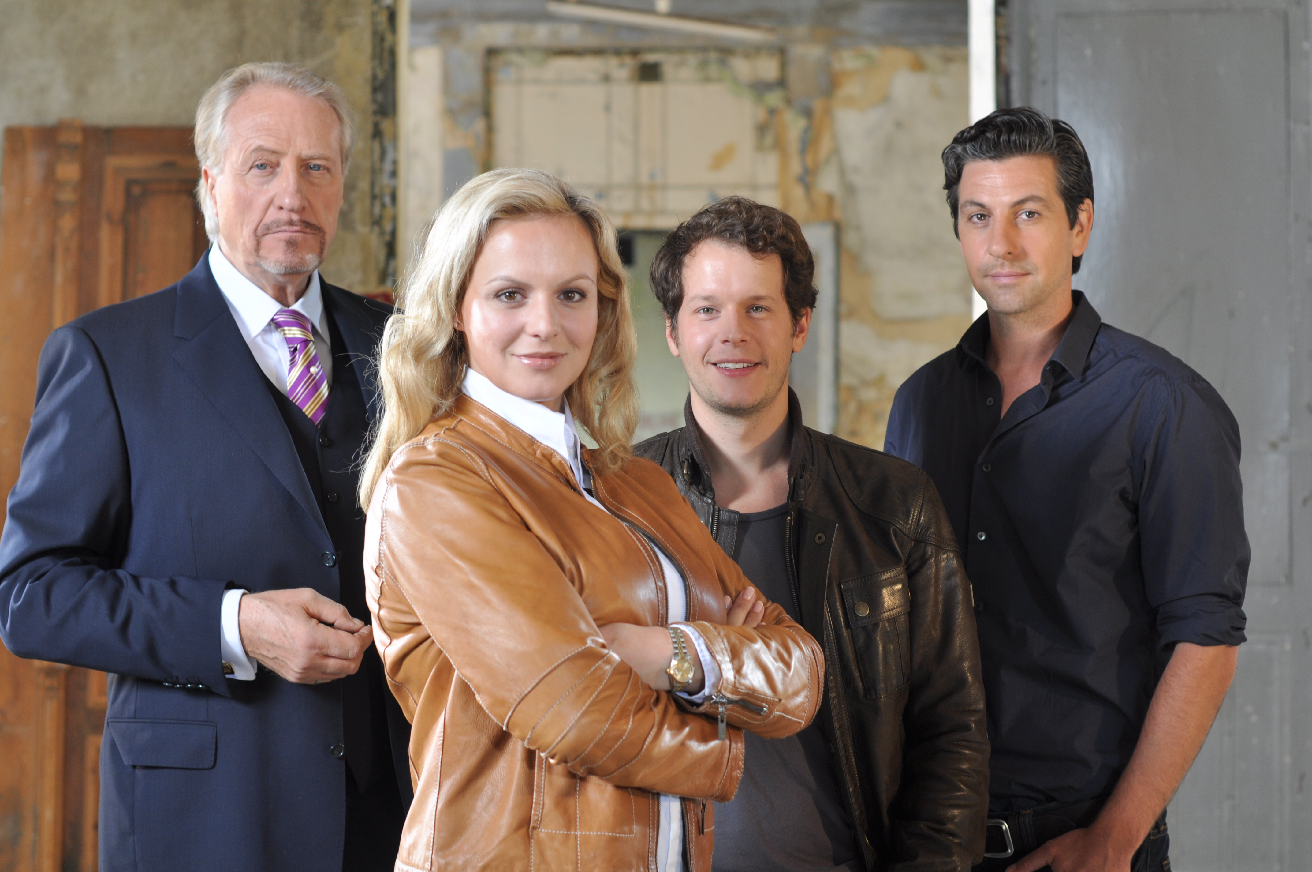 On set for filming the RTL series "The Trickster": Reiner Schöne, Anja Nejarri, Mirko Lang & Gregor Törzs, leading actors of the series